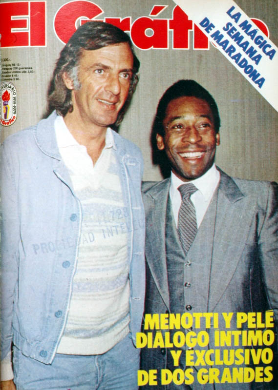 César Menotti and Pelé, joined by El Gráfico for an interview.